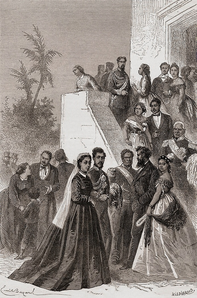 King Kamehameha V, his family members and royal court including Queen Emma, Prince Lunalilo, Princess Victoria Kamāmalu, John William Pitt Kīnaʻu, Mataio Kekūanāoʻa, Paul Nahaolelua and others, illustration from The World in the Hands, engraved by Henri Theophile Hildibrand (1824-1897), published 1878 (engraving) , artist: Émile-Antoine Bayard (1837-1891) (after). Drawing by Émile Bayard, based on assorted photographs.